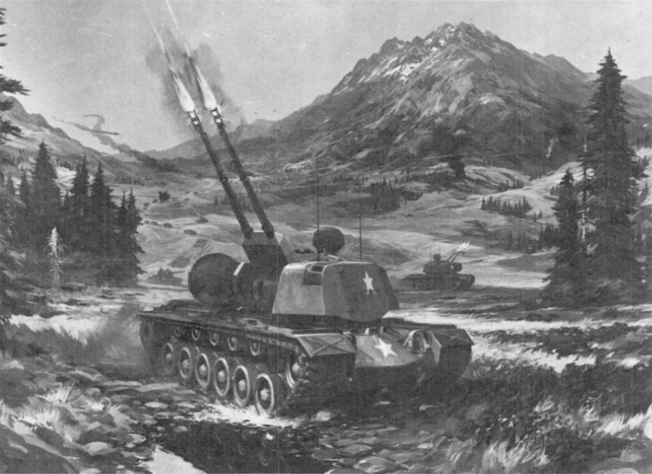 Artist's concept of the General Dynamics' DIVAD (Division Air Defense Gun) entry.